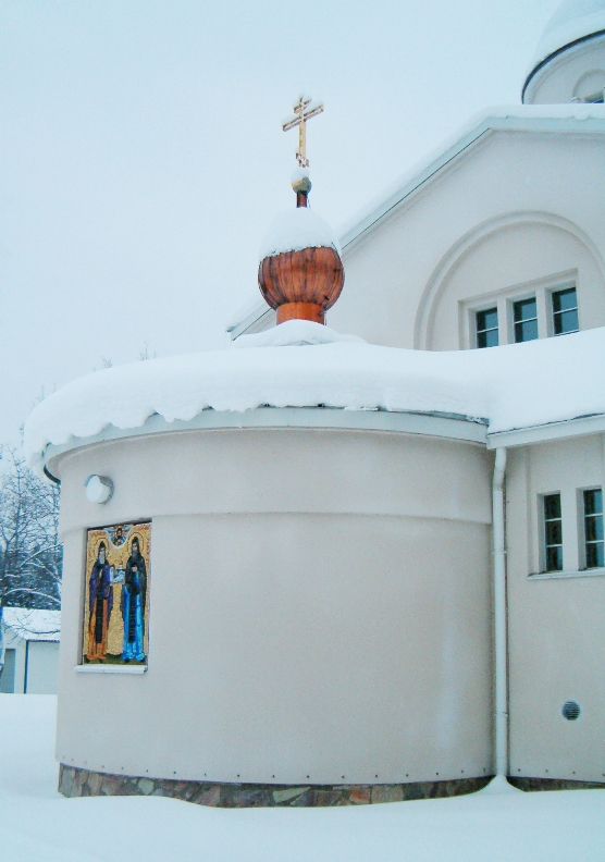 "Winter Church" in the New Valamo (or New Valaam) monastery in Heinävesi, Finland.